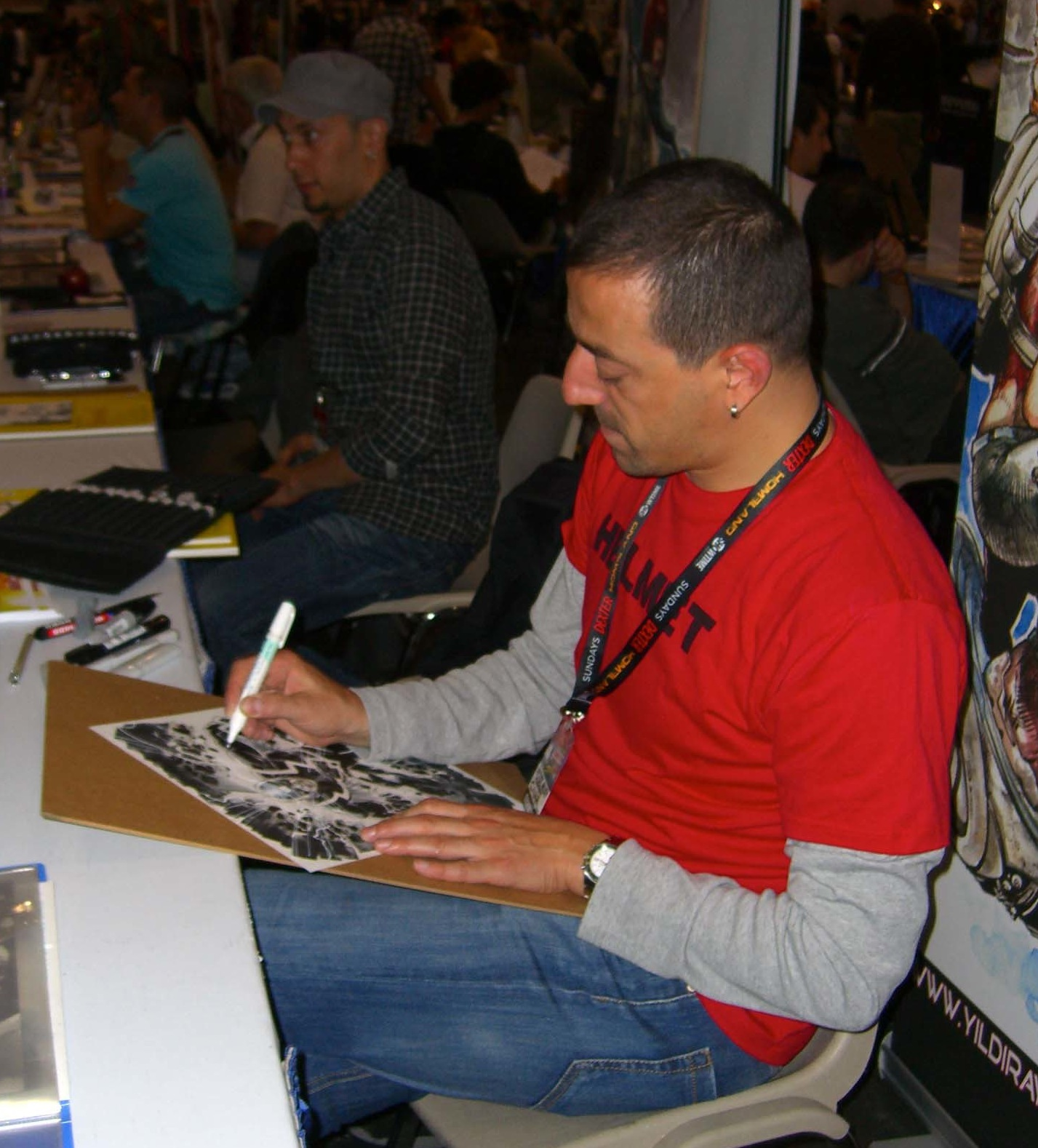 Comics creator Yıldıray Çınar sketching at the New York Comic Con, October 15, 2011. To his right is fellow Turkish comics artist Mahmud A. Asrar. This photo was created by Luigi Novi. It is not in the public domain, and use of this file outside of the licensing terms is a copyright violation.